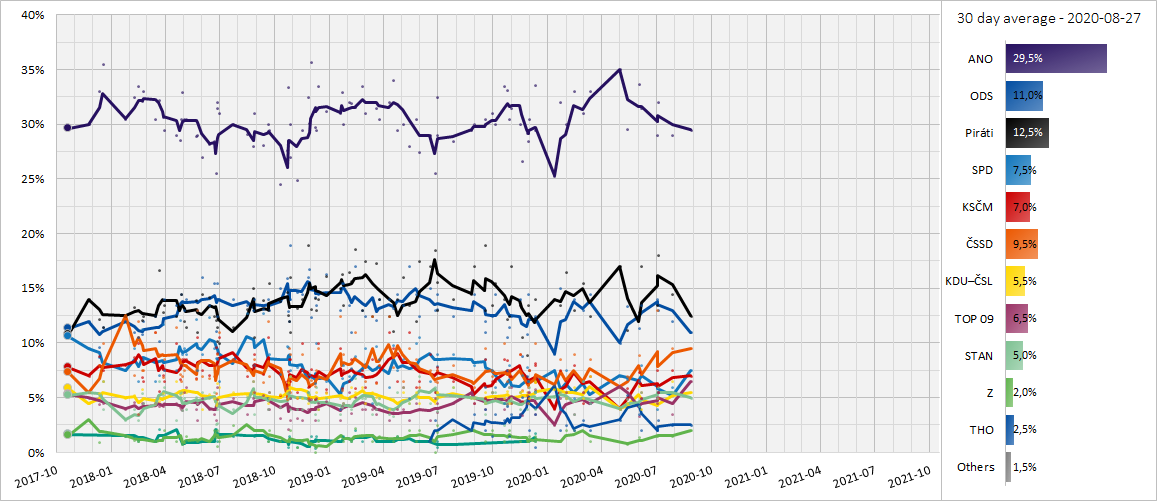 30 day moving trendline of Czech opinion polling from the election in 2017 towards the next one.